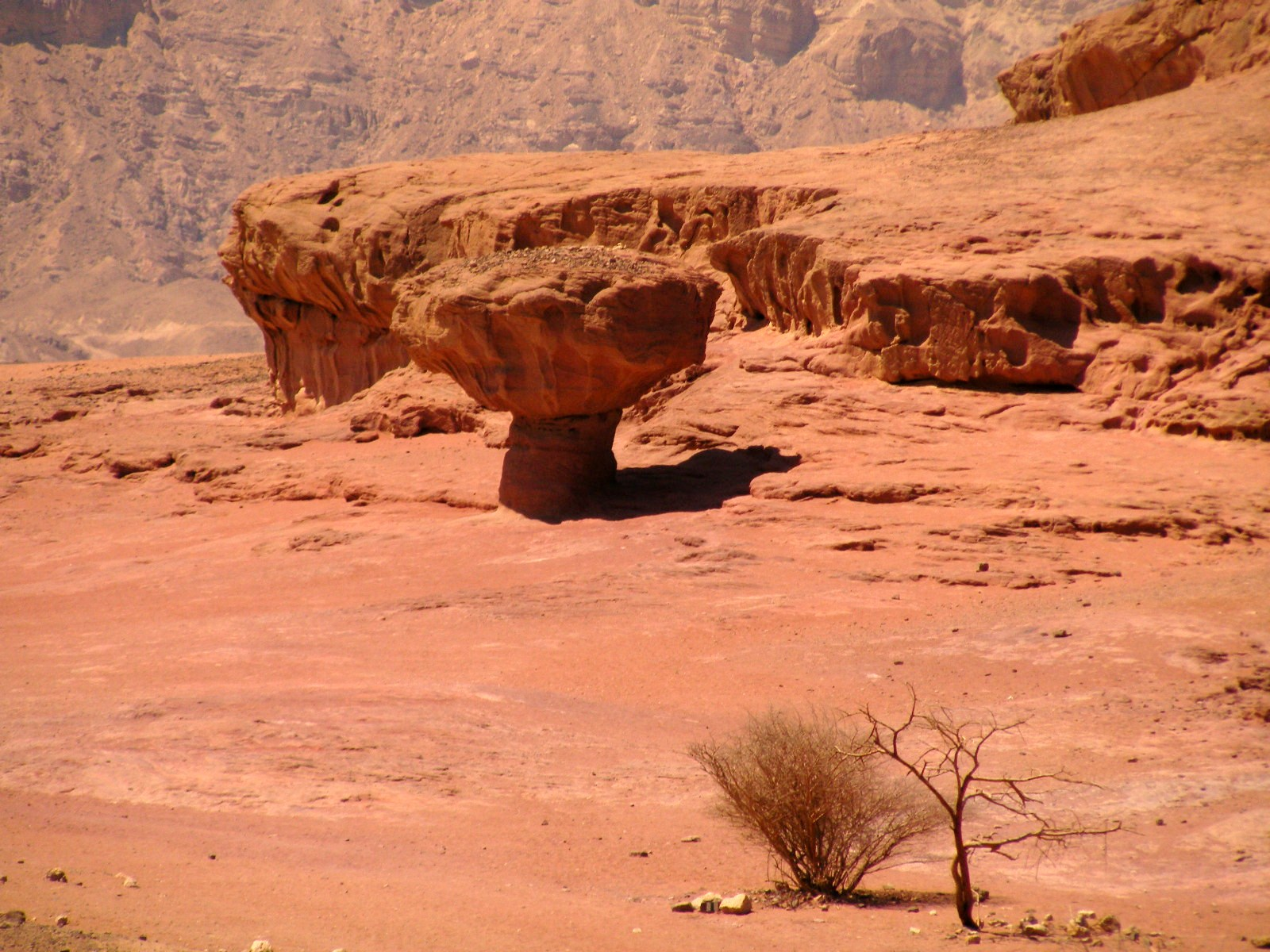 The Mushroom